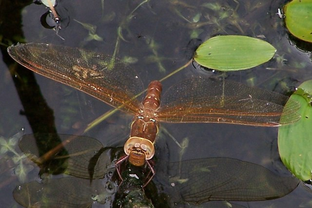 RSPB Old Moor ... it's got wings, but it isn't a bird ! A Brown Hawker (Aeshna grandis) dragonfly egg-laying on one of the Old Moor ponds.